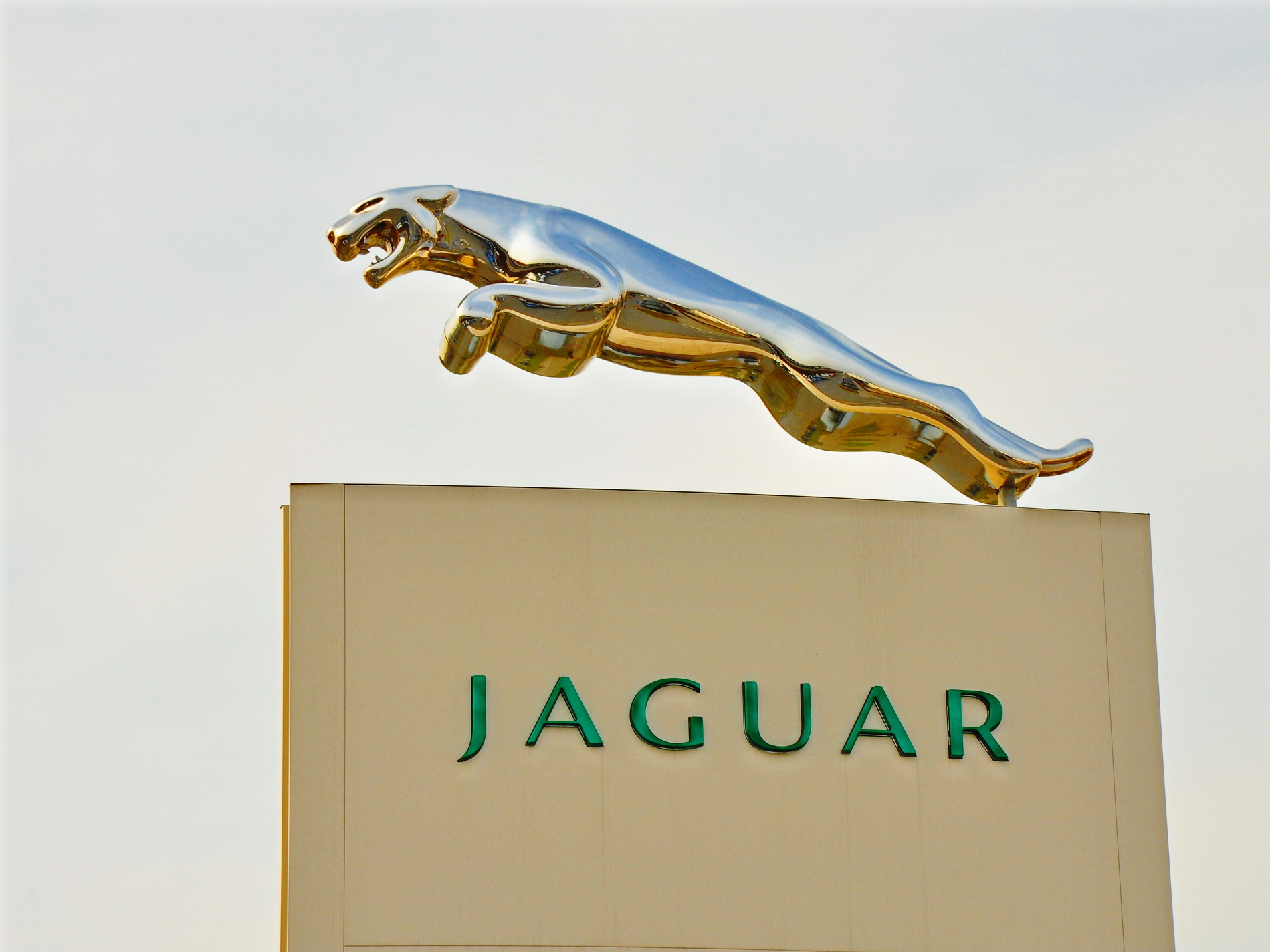 Jaguar - sign (color)